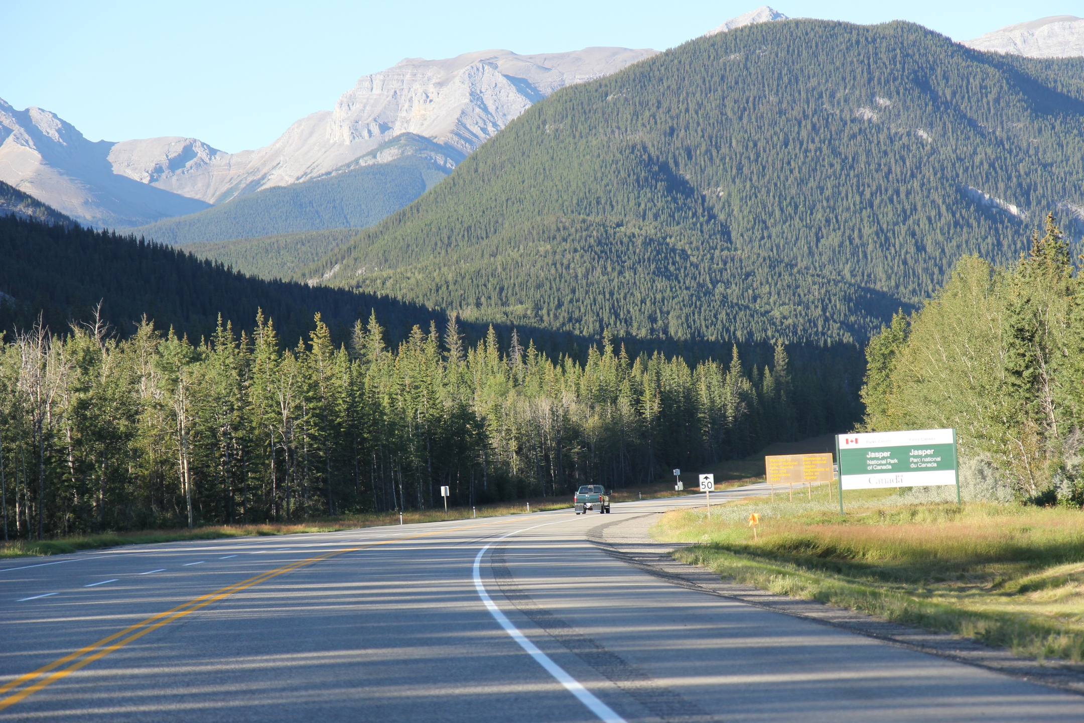 Entering Jasper National Park on the Yellowhead Highway (Trans-Canada Highway).